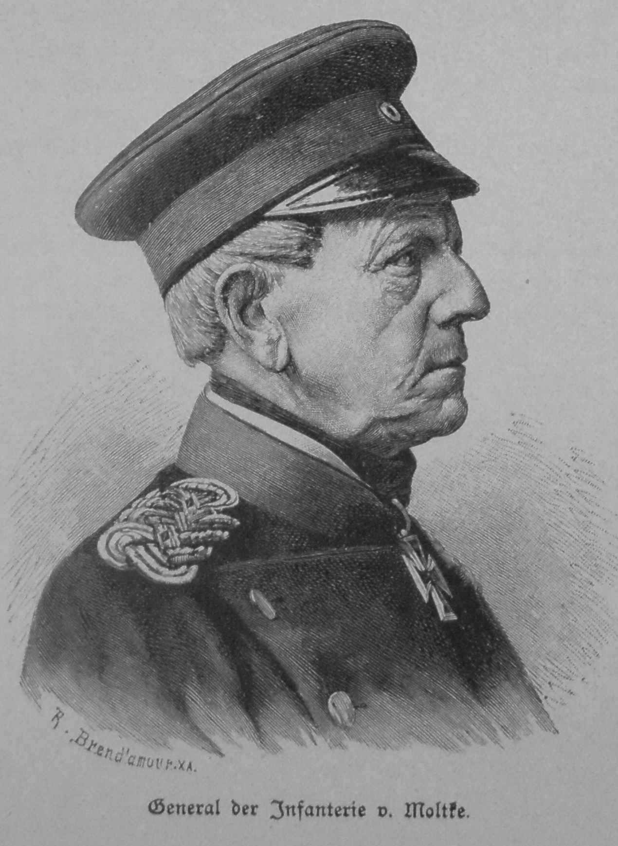 General of infantry von Moltke